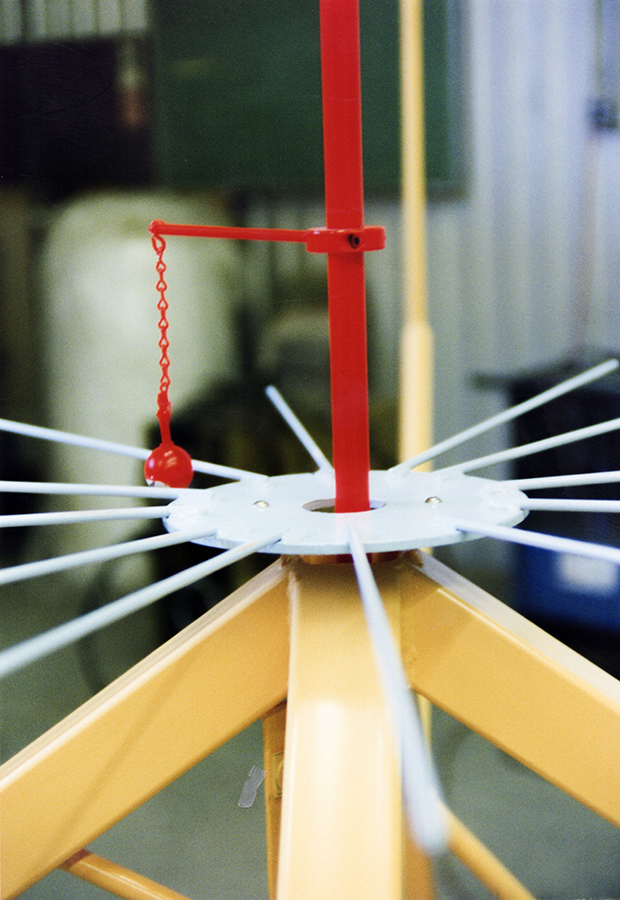 Detail image from the Bolas Bulliciosass ball machine, located in Monterrey, Mexico.